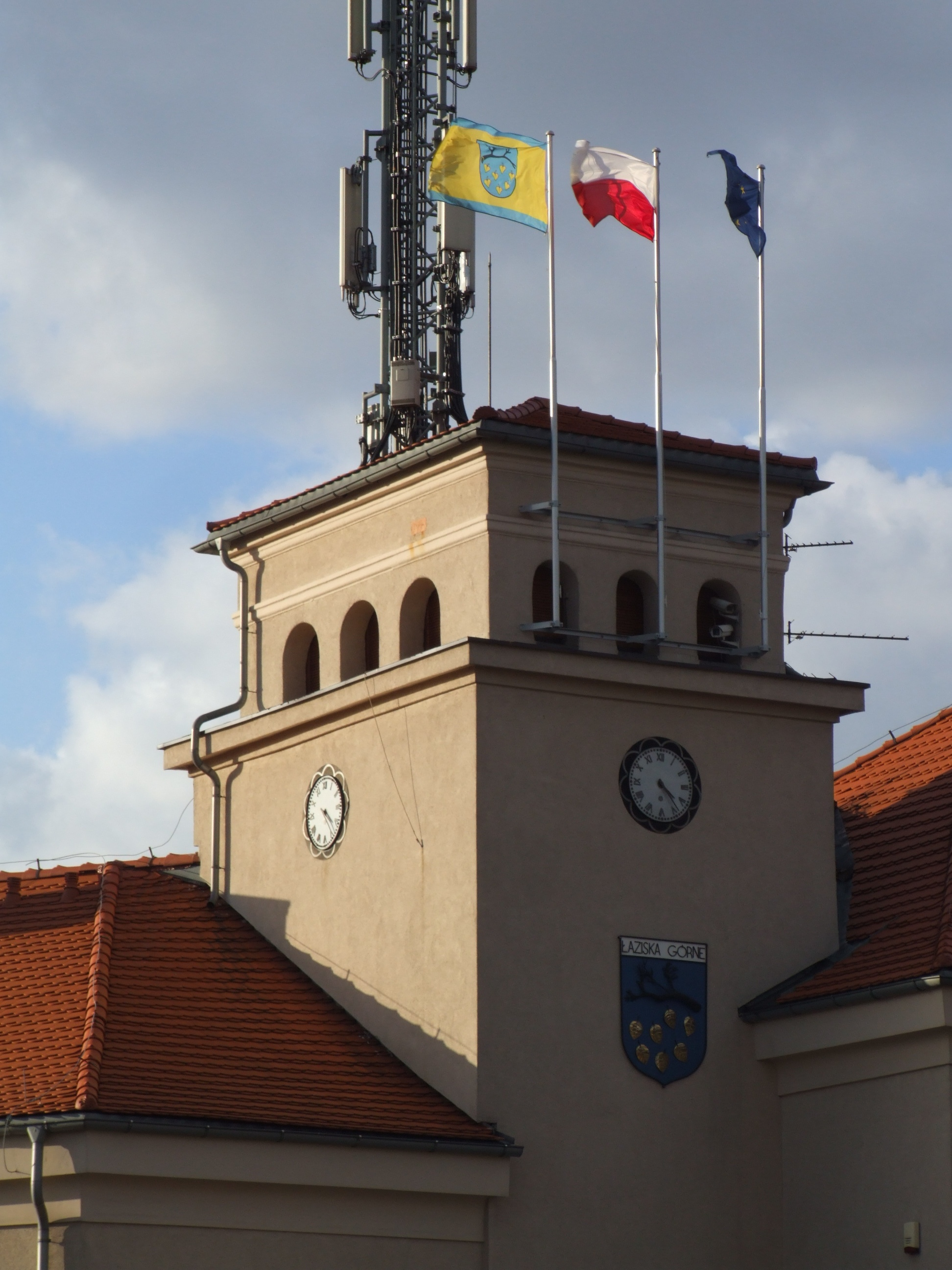 New city flag in Łaziska Górne Česky: Nová městská vlajka nad radnici. Łaziska Górne, Horní Slezsko Ślůnski: Nowo łazisko fana nad ratużem